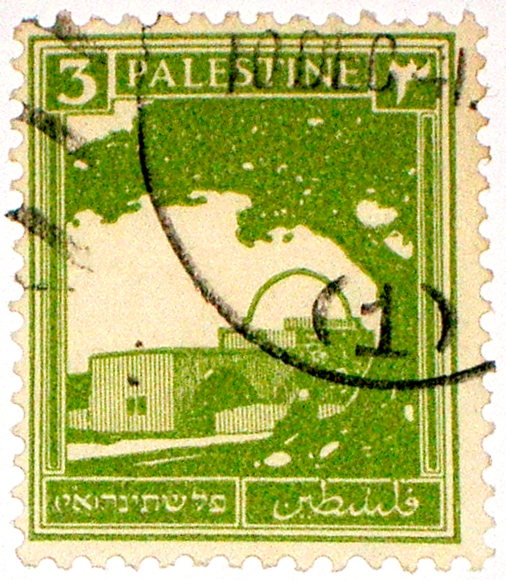 A Palestinian stamp, used in 1941, while Palestine under the British mandate, from my own collection. I do not have any kind of restrictions for those who wish to use this image, given that the legal status of the original is not abused, giving me credit for uploading it is not necessary, but it would be nice if you point out that it was found on Wikimedia Commons. The stamps shows a picture of Rachel's tomb. (Actually, the stamp was first issued on 1.06.1927, and this copy seems to have been used in 1941.)